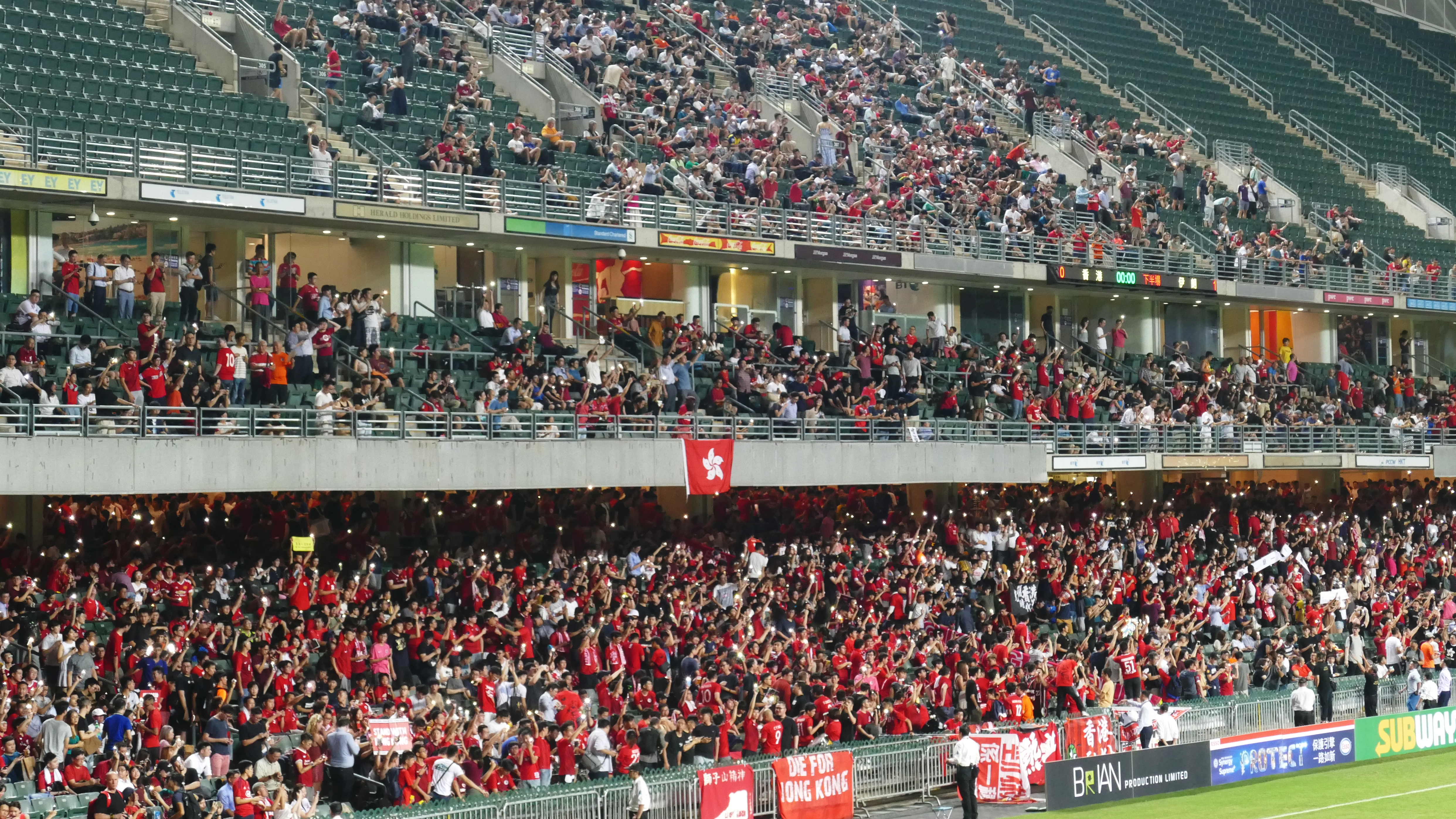 世盃外港戰伊朗 球迷紅黑衫大唱願榮光歸香港 Thousands gathered at Hong Kong Stadium and sang their new ‘National Anthem’ before the World Cup qualifier HK vs Iran